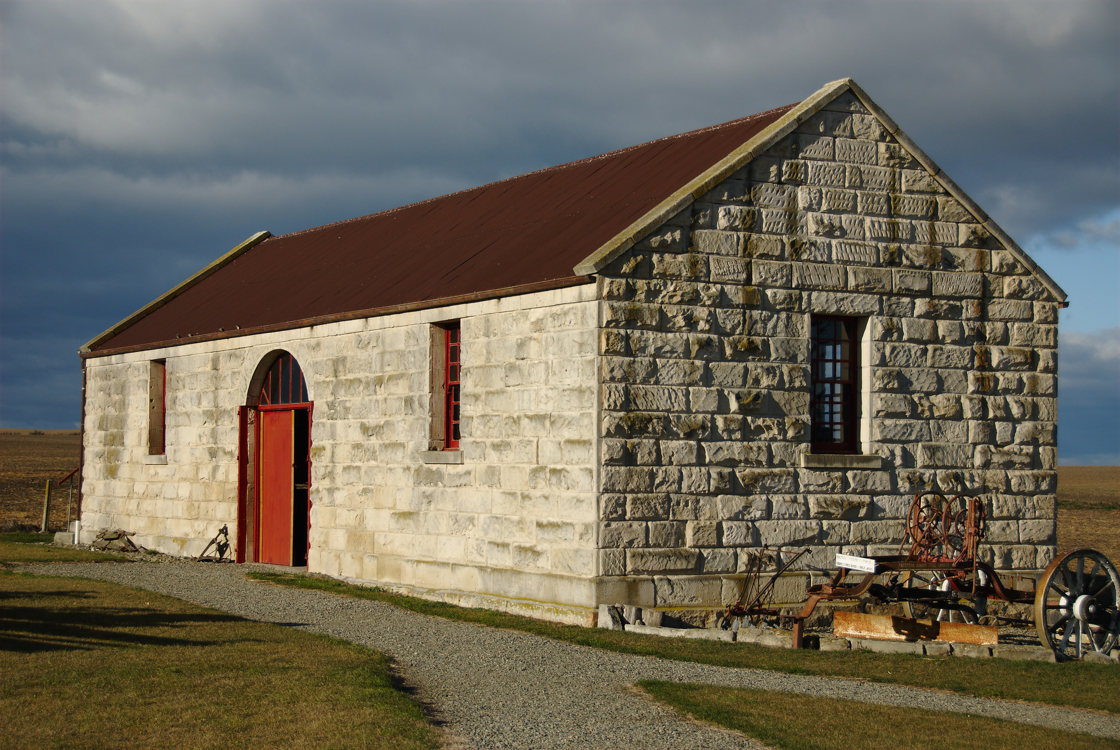 The granary at Totara Estate. Registered with the New Zealand Historic Places Trust as a Category I historic place.